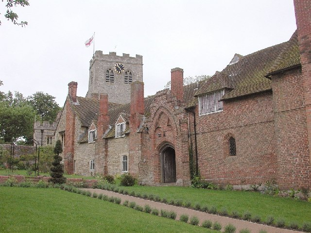 Ewelme (Oxon) Medieval Almshouses